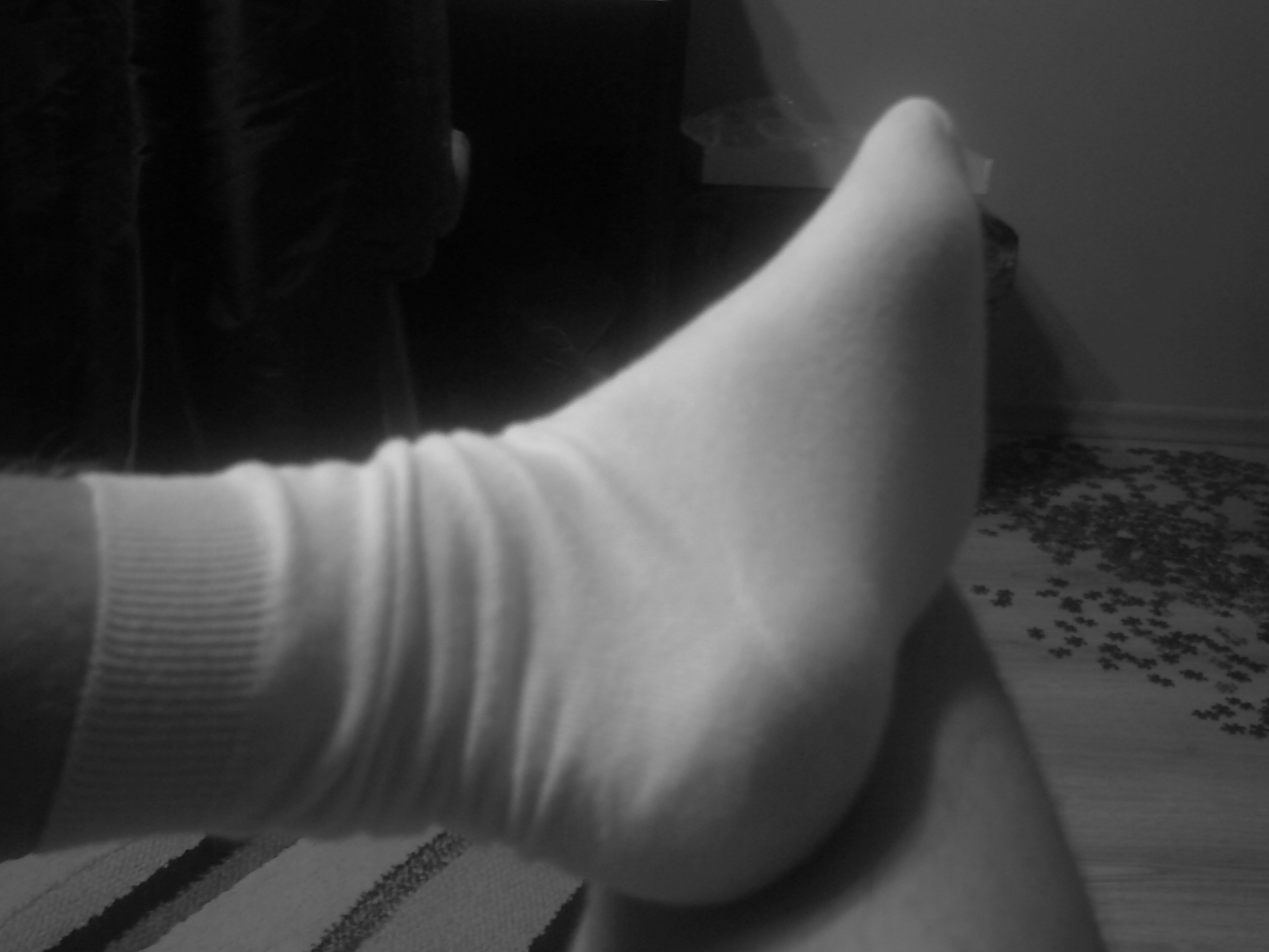 Polish white socks